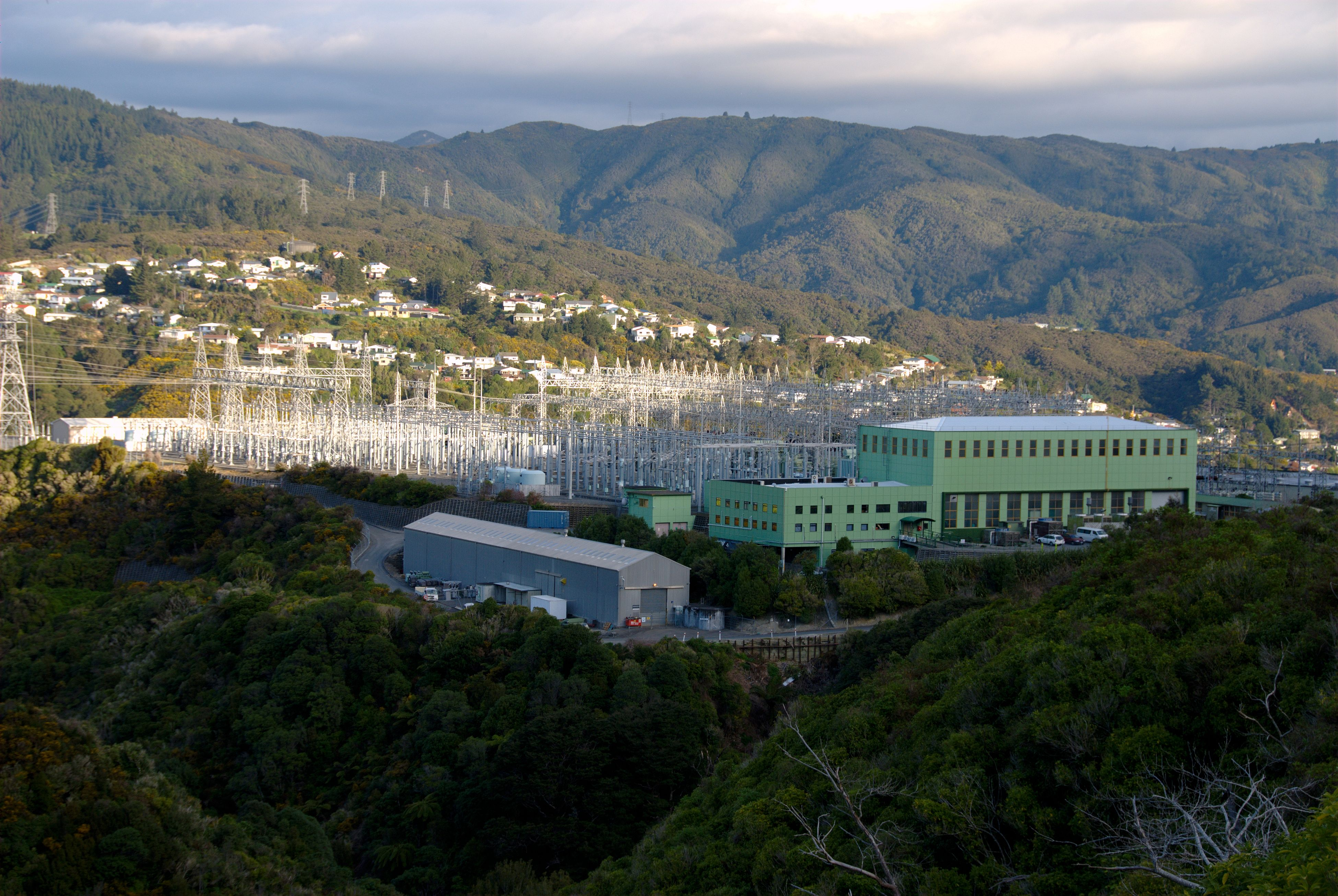 Haywards electrical substation, where the HVDC Inter-island cable connects to the North Island power grid. (Haywards, in Lower Hutt City, New Zealand)